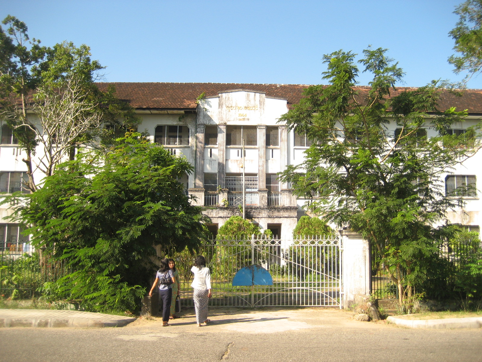 Yadana Hall, Yangon University